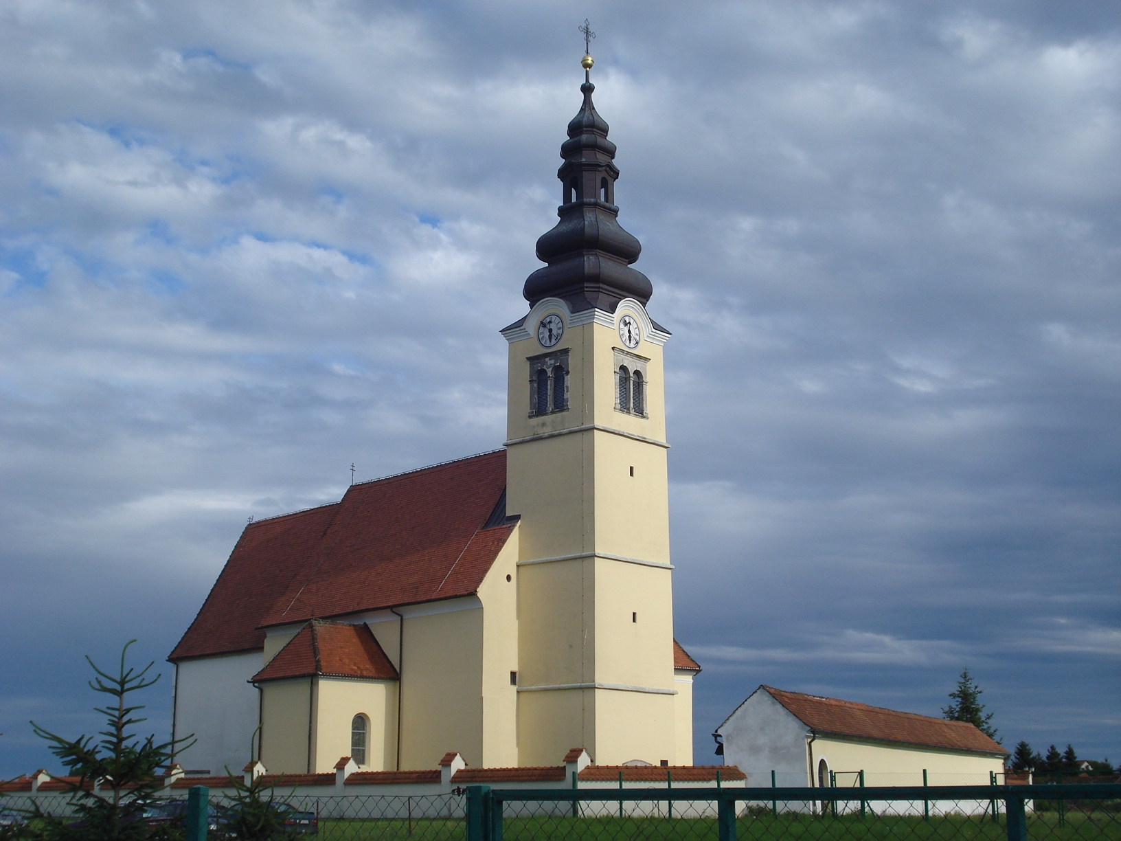 Church of Holy Trinity in Nedelišće, Medjimurje County, Croatia - front view